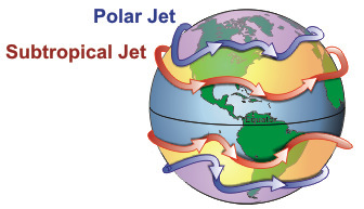 Actual jet stream configuration